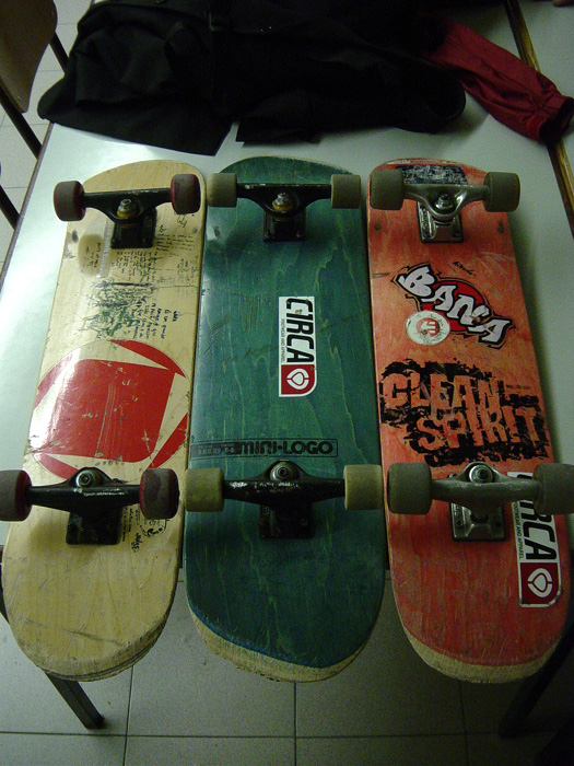 Every man has his skateboard ("boards", for those who, unlike us, do know how to pull tricks, thus, knowing how to break the wood...).Skateboards | 2005.05.13